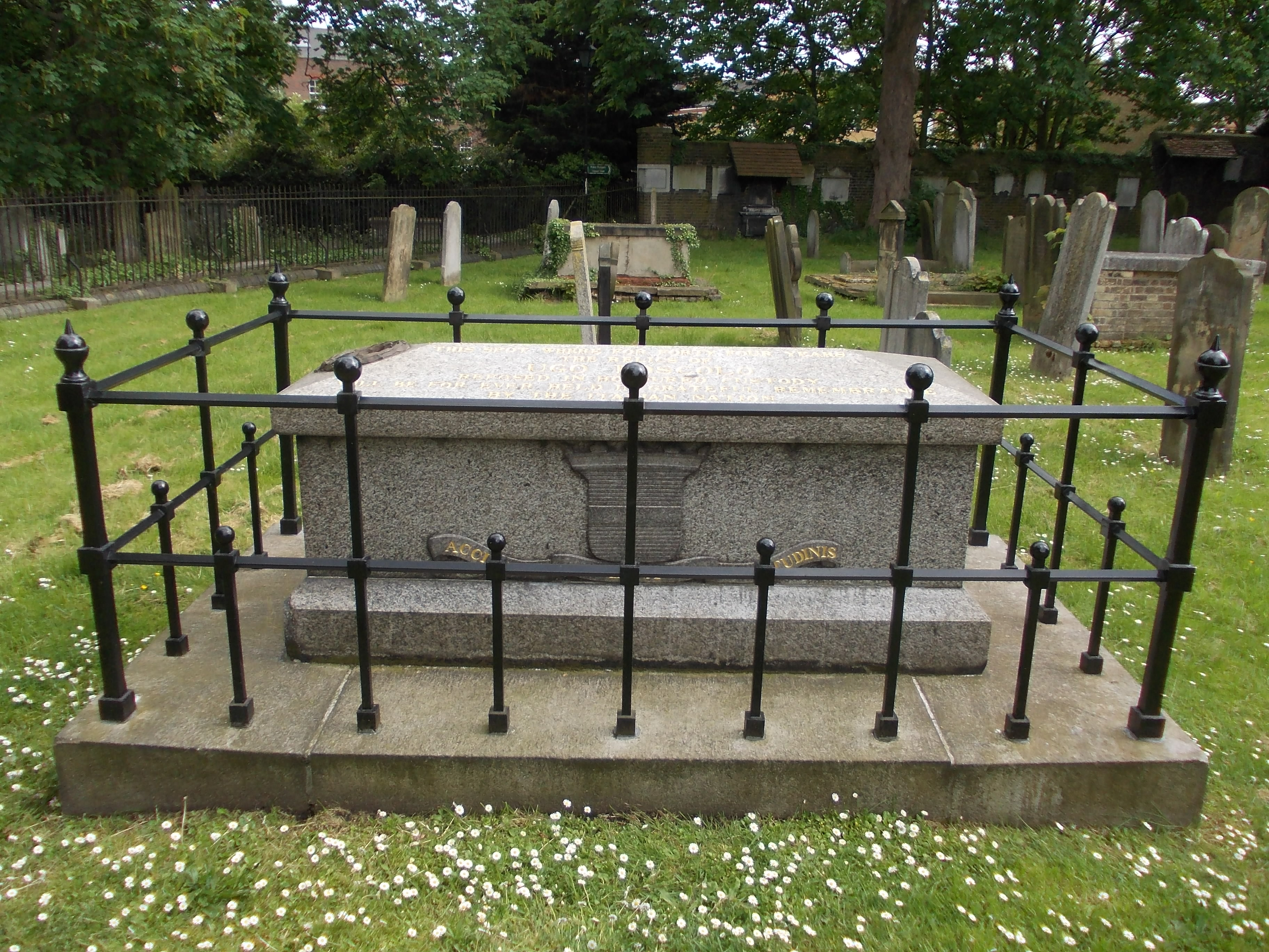 Memorial to Ugo Foscolo in St Nicholas Churchyard, Chiswick